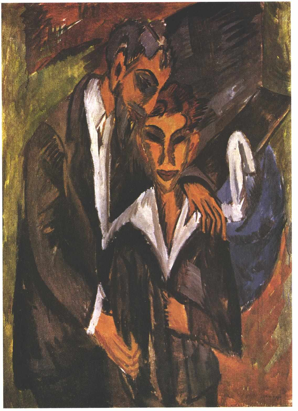 Graef and friend